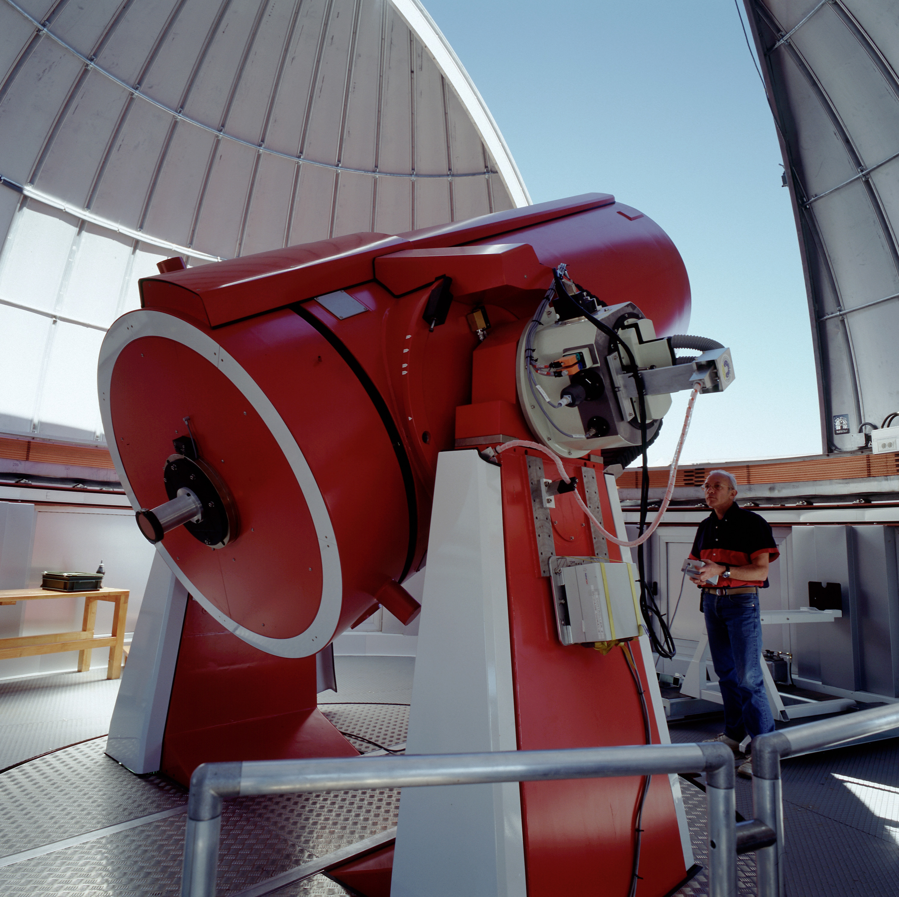 Swiss 1.2-m Leonhard Euler Telescope The Swiss 1.2-m Leonhard Euler Telescope in its dome at La Silla. This telescope is named after the Swiss mathematician Leonhard Euler (1707 - 1783). Credit: ESO/H.Zodet